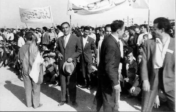 ميدان جلاليه 18 ارديبهشت 1340